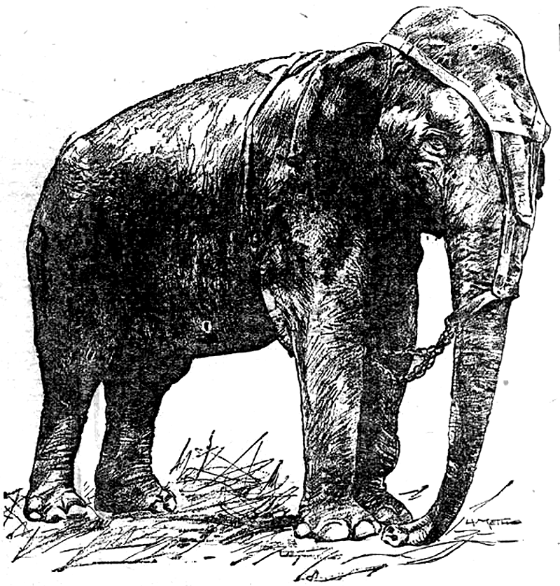 An illustration of Topsy, a female Asian elephant killed at a Coney Island, New York park by electrocution on January 4, 1903.